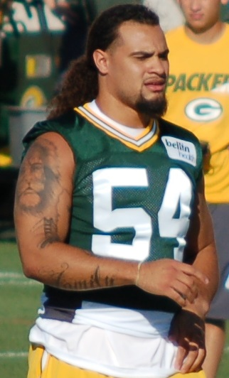 2015 Packers training camp